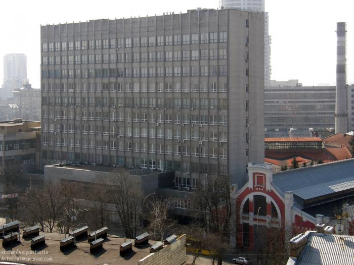 Здание завода "Арсенал",ул.Московская,8 к.30